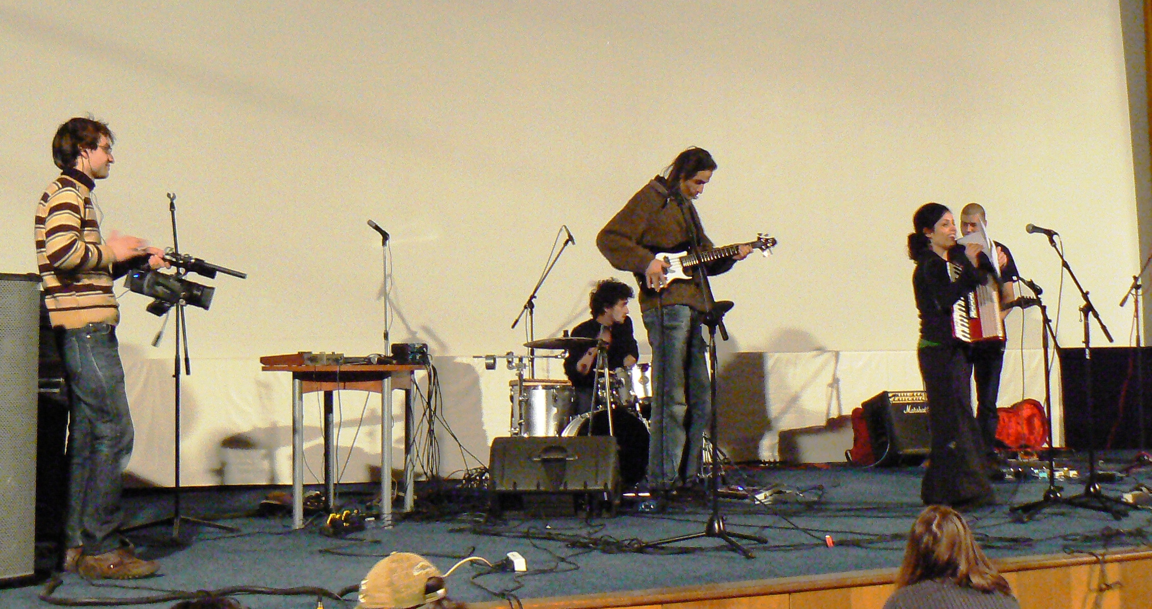 Bulgarian avantgarde minimalistic band Nasekomix - on a literary reading in support of Haiti